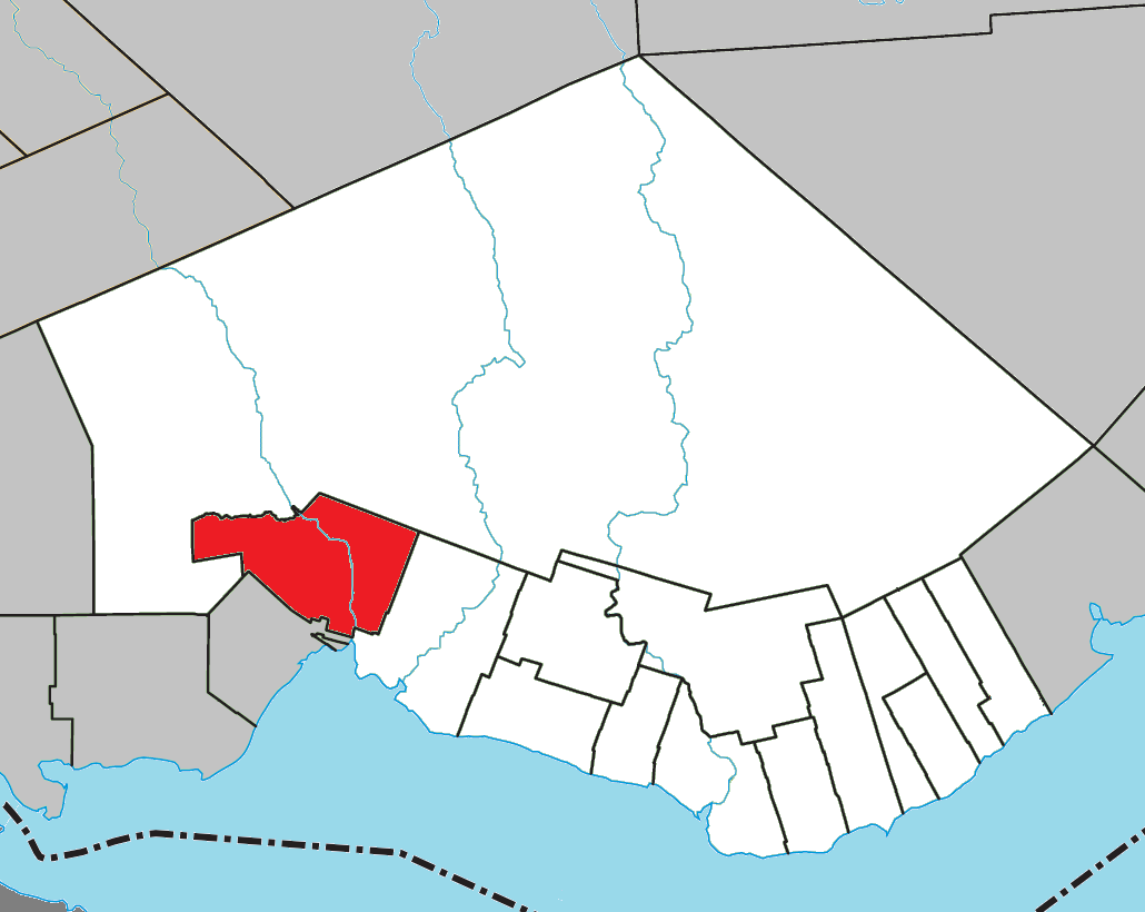 Location of Cascapédia–Saint-Jules, Quebec within Bonaventure Regional County Municipality.